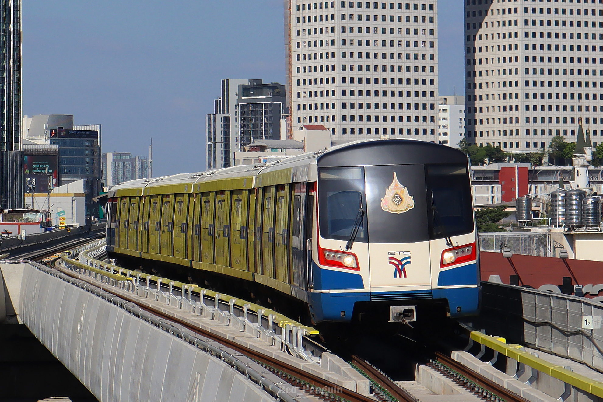 B1 EMU-46@ลาดพร้าว